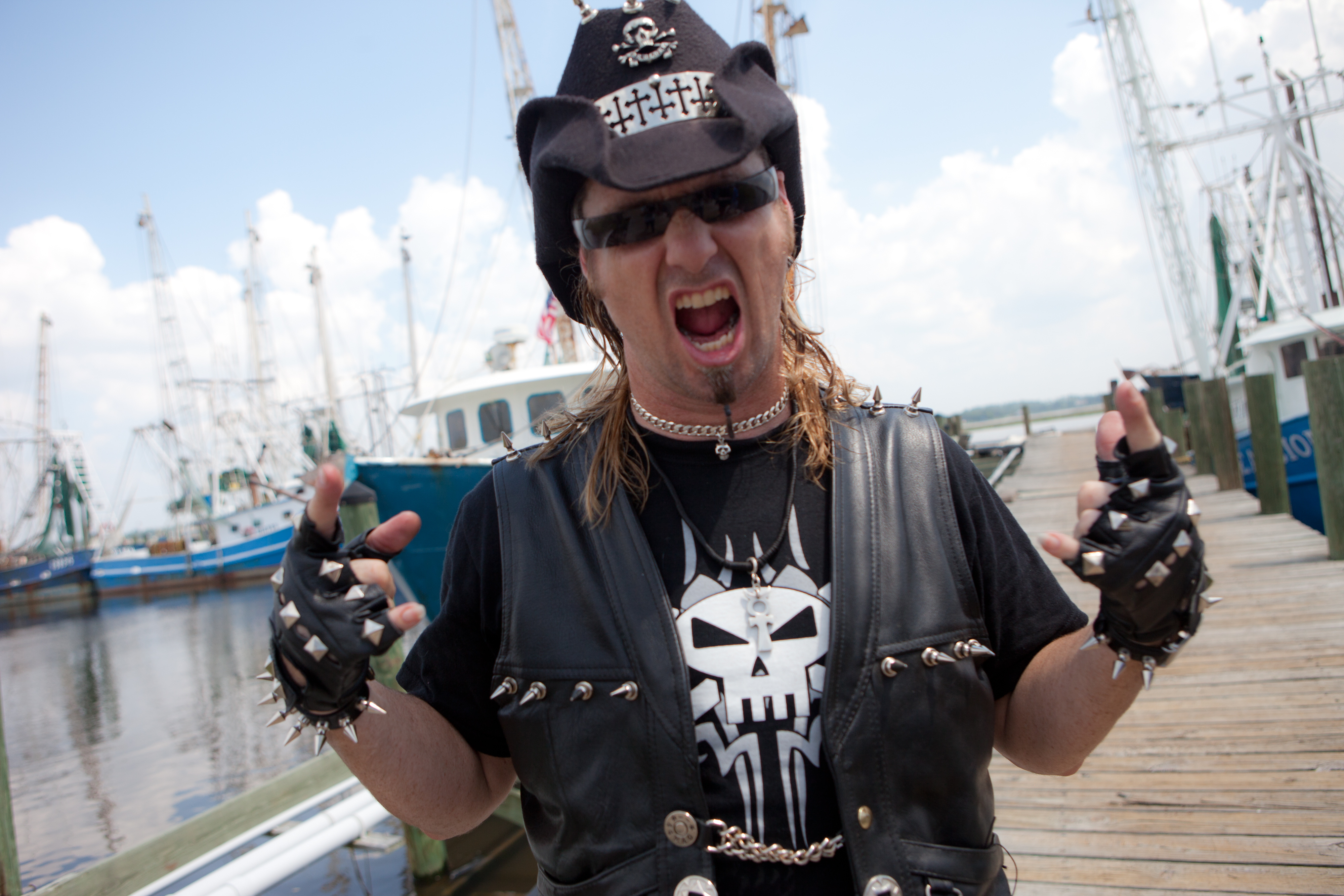 Billy Bretherton, presenter of the reality-show Billy the Exterminator in Biloxi, Mississippi.